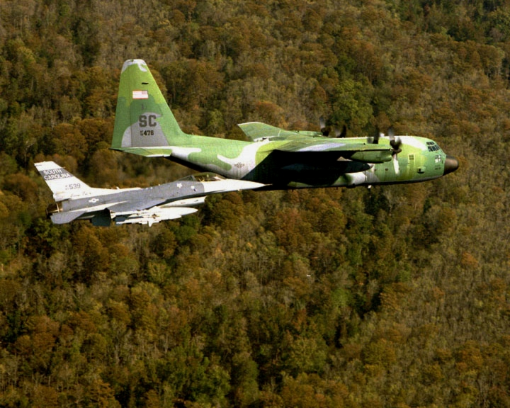 A U.S. Air Force General Dynamics F-16C Fighting Falcon Block 52 aircraft (s/n 93-539) from the 157th Fighter Squadron, 169th Fighter Wing, South Carolina Air National Guard, flies next to a Lockheed C-130H-LM Hercules (s/n 79-0476) from the 169th Operations Support Flight, 169th FW, on 1 November 1998.